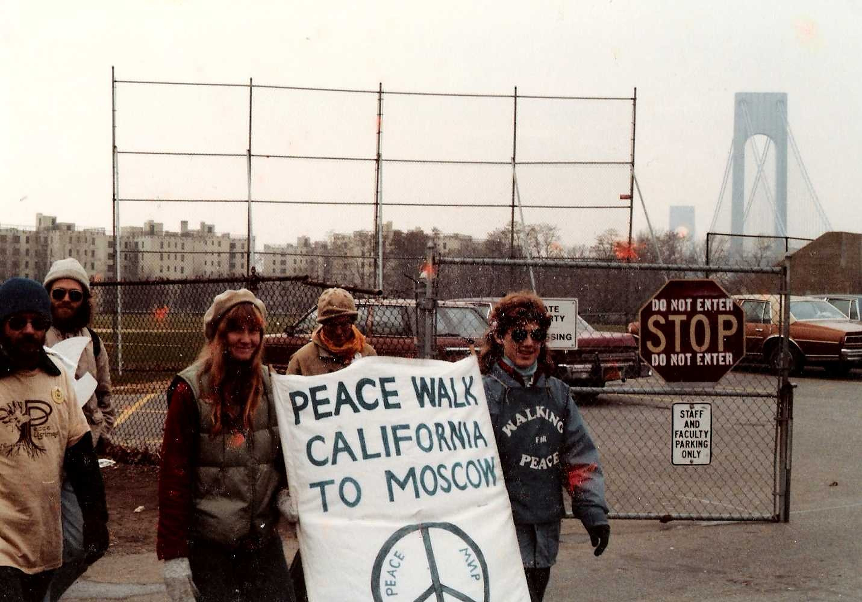 Members of Walk of the People - A Pilgrimage for Life reach New York City in December 1984. The peace walk covered 7,000 miles across the United States and Europe, eventually reaching Moscow, in 1984 and 1985.